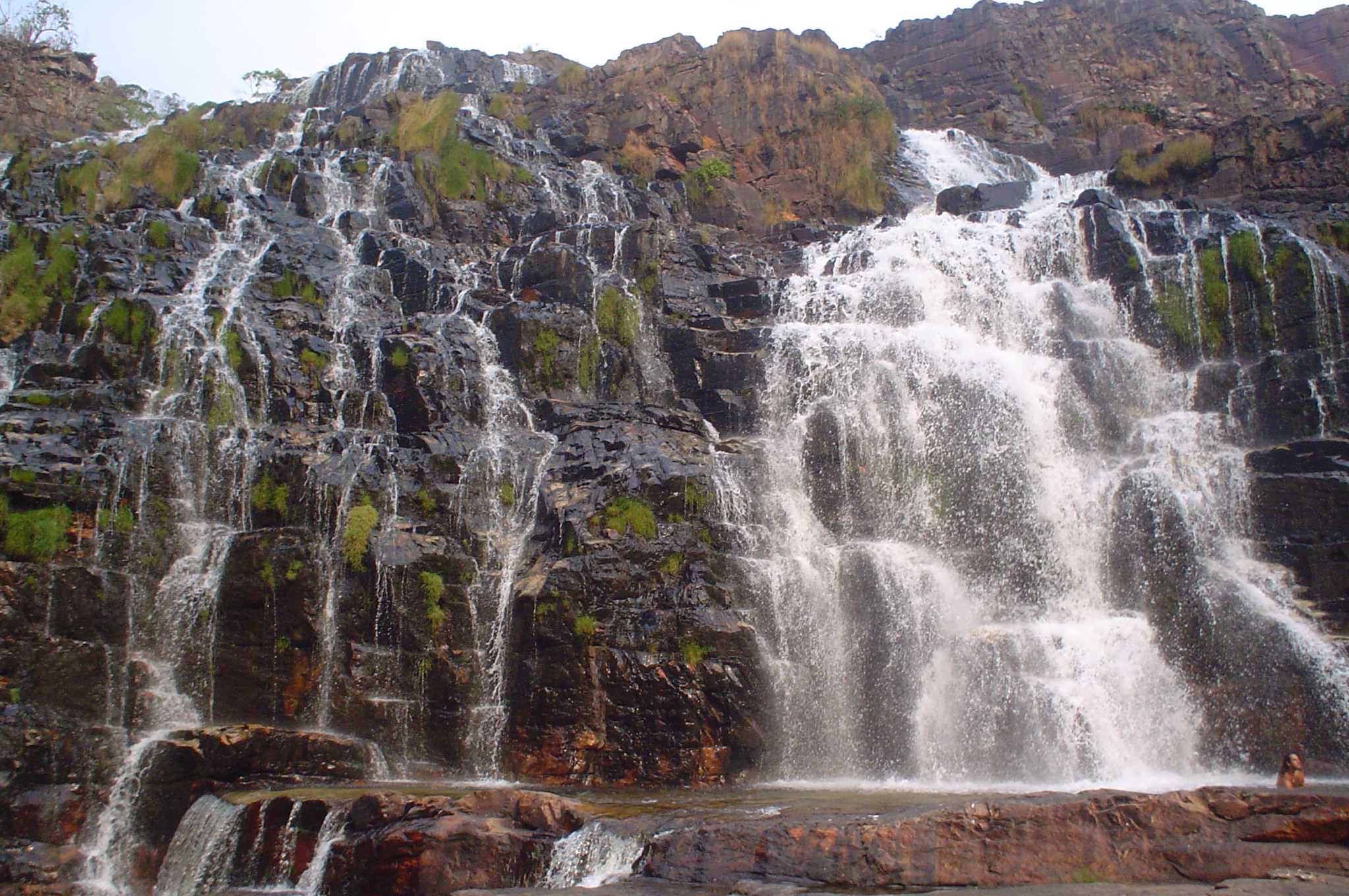 == Summary (Descrição do ficheiro) == Catarata dos Couros, Alto Paraíso, Goiás. Foto minha.